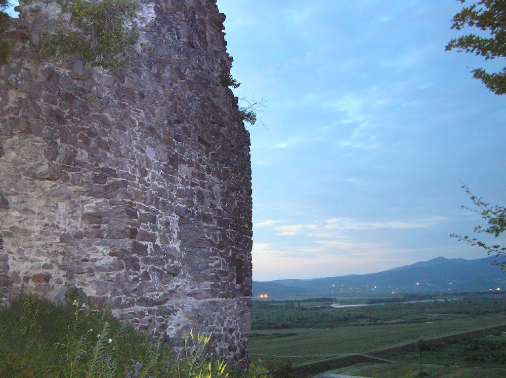 The ruins of a castle in Korolevo